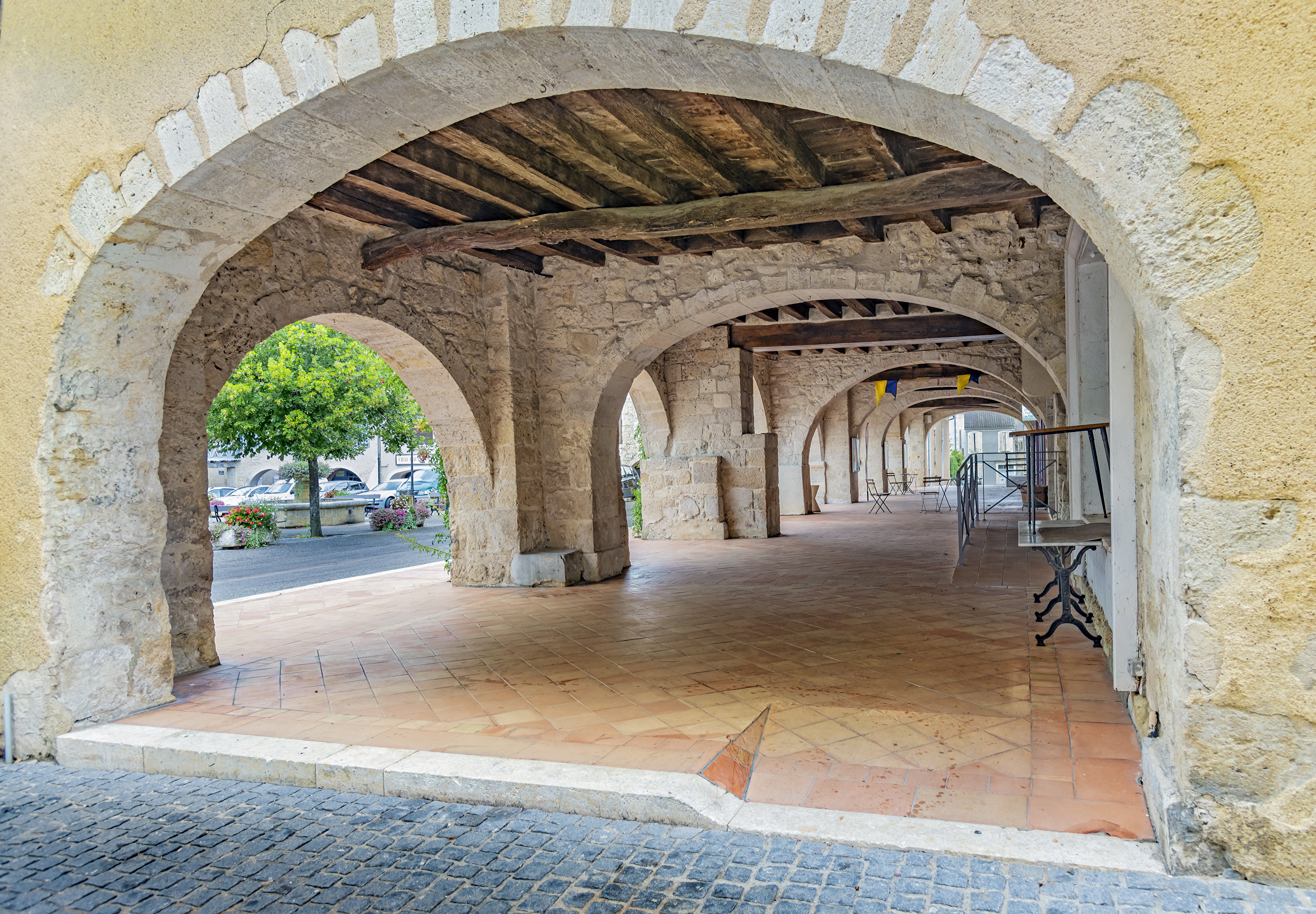 The arcades of the Town Hall Square of Montreal, Gers, France.